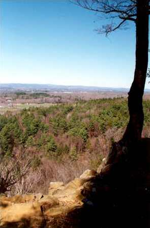 West Suffield Mountain. Connecticut. By Paul Gagnon